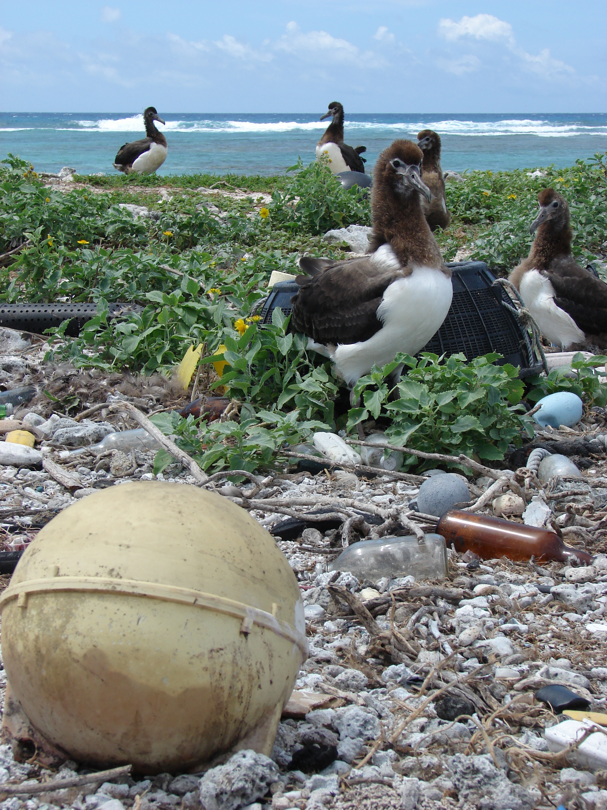 Verbesina encelioides (habit with Laysan albatross chicks and marine debris). Location: Midway Atoll, Eastern Island